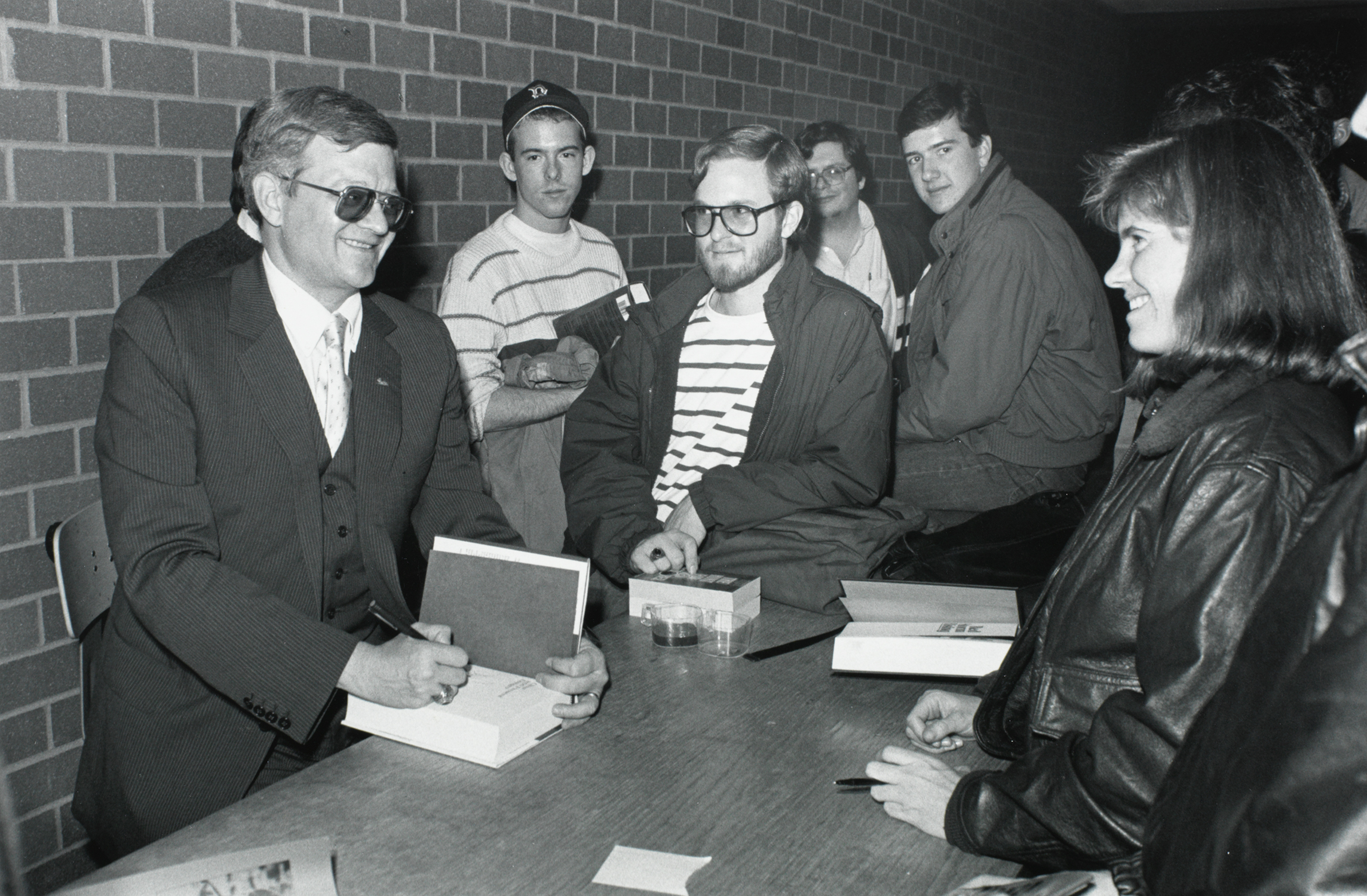 Tom Clancy at Burns Library, Boston College. Taken by Gary Wayne Gilbert.